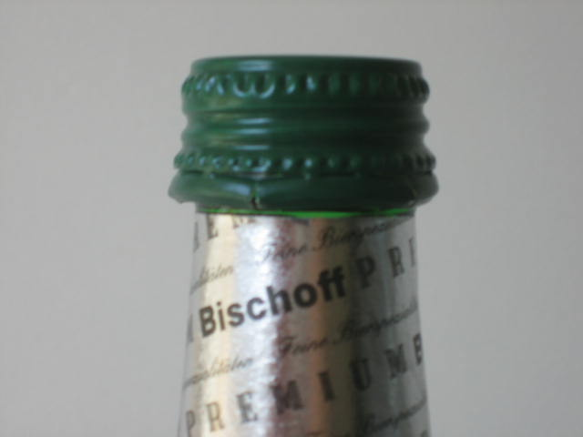 screw cap on a bottle of Pils brewed by Privatbrauerei Bischoff in Winnweiler